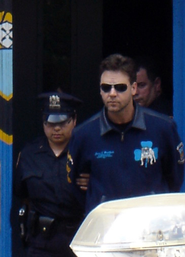 Russell Crowe en route to his arraignment for (as he later admitted) throwing a phone at a hotel clerk.